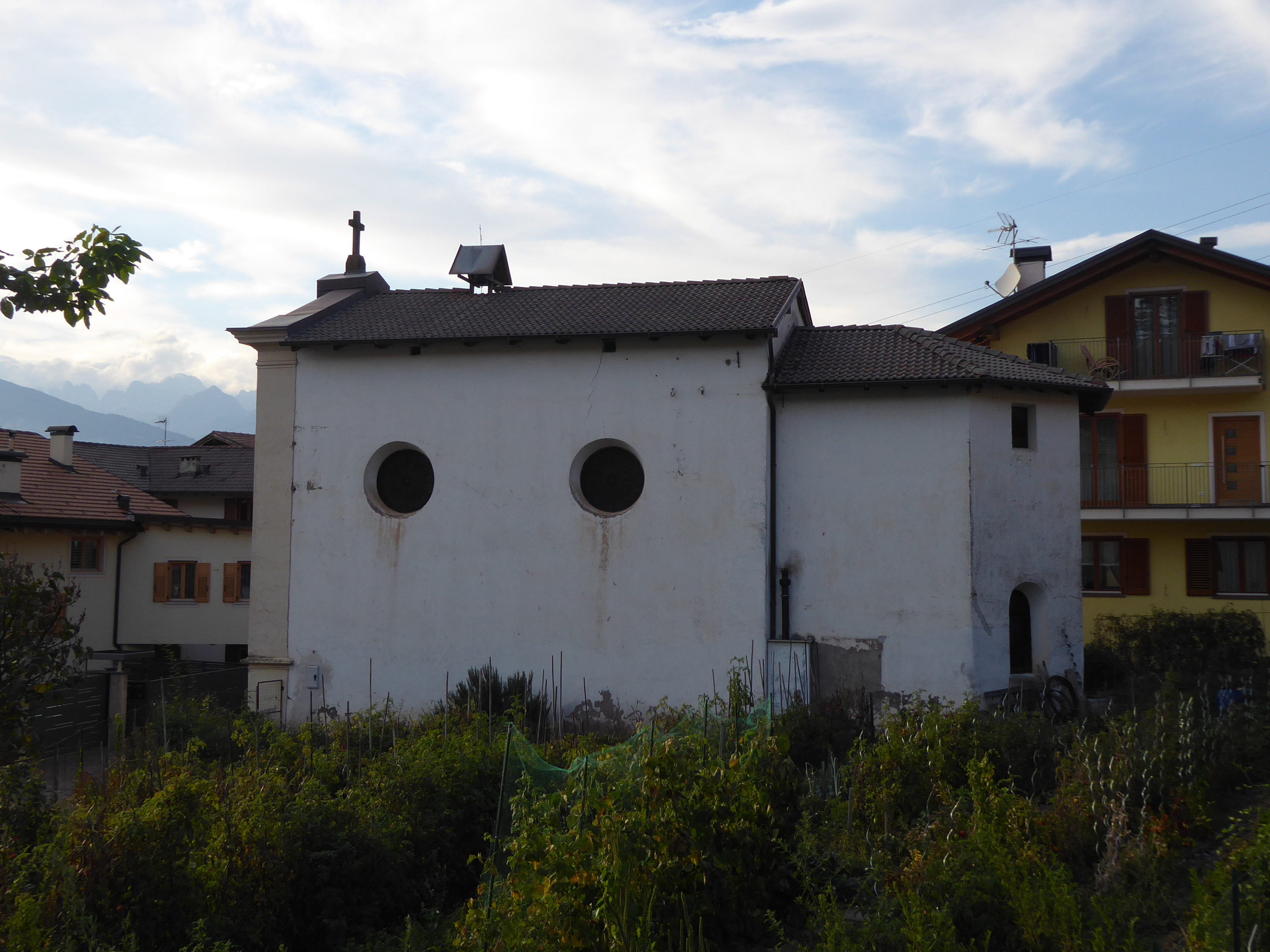 The church of Saint Romedius in Valternigo (Giovo, Trentino, Italy)